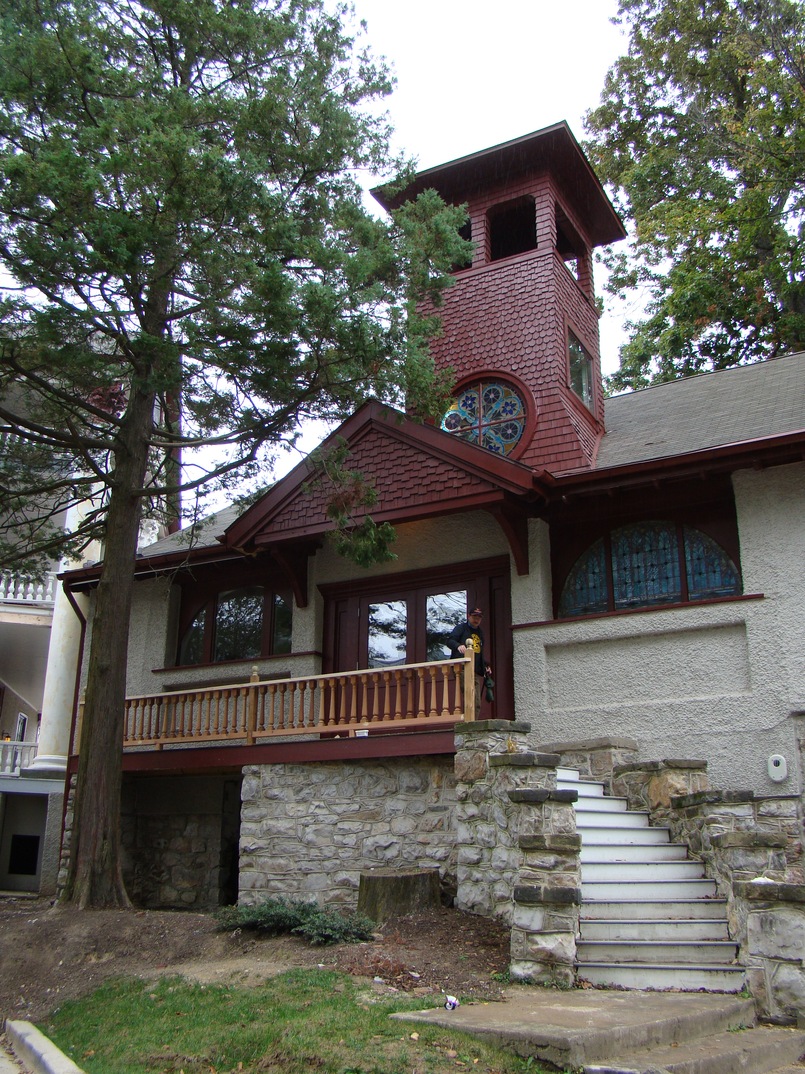 For more information on the National Park Seminary visit The Seminary at Forest Glen, the website of the private developer for the site, the website of Save Our Seminary, or the Wikipedia page for the site.